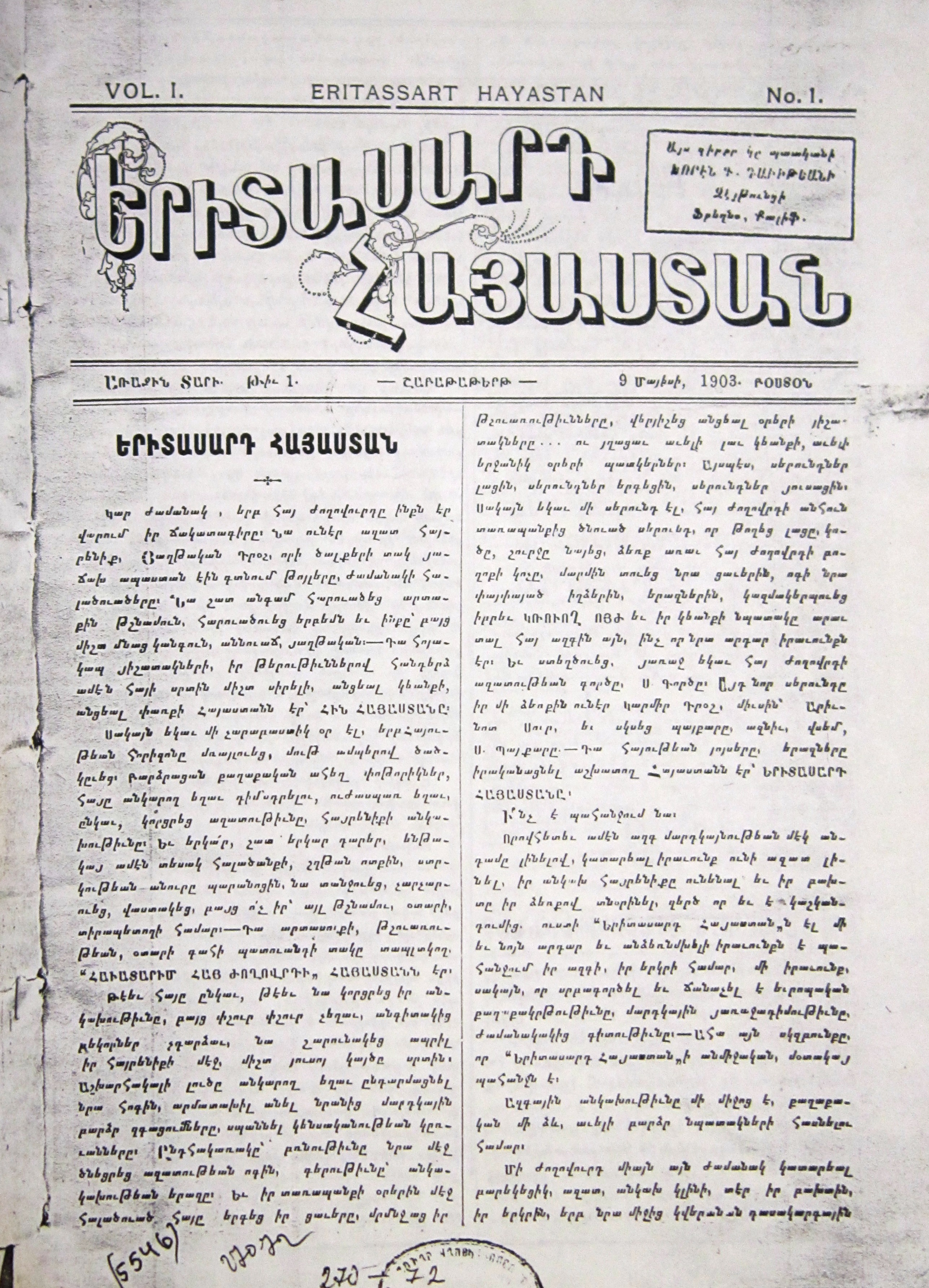 Eritasard Hayastan journal, #1, 1903